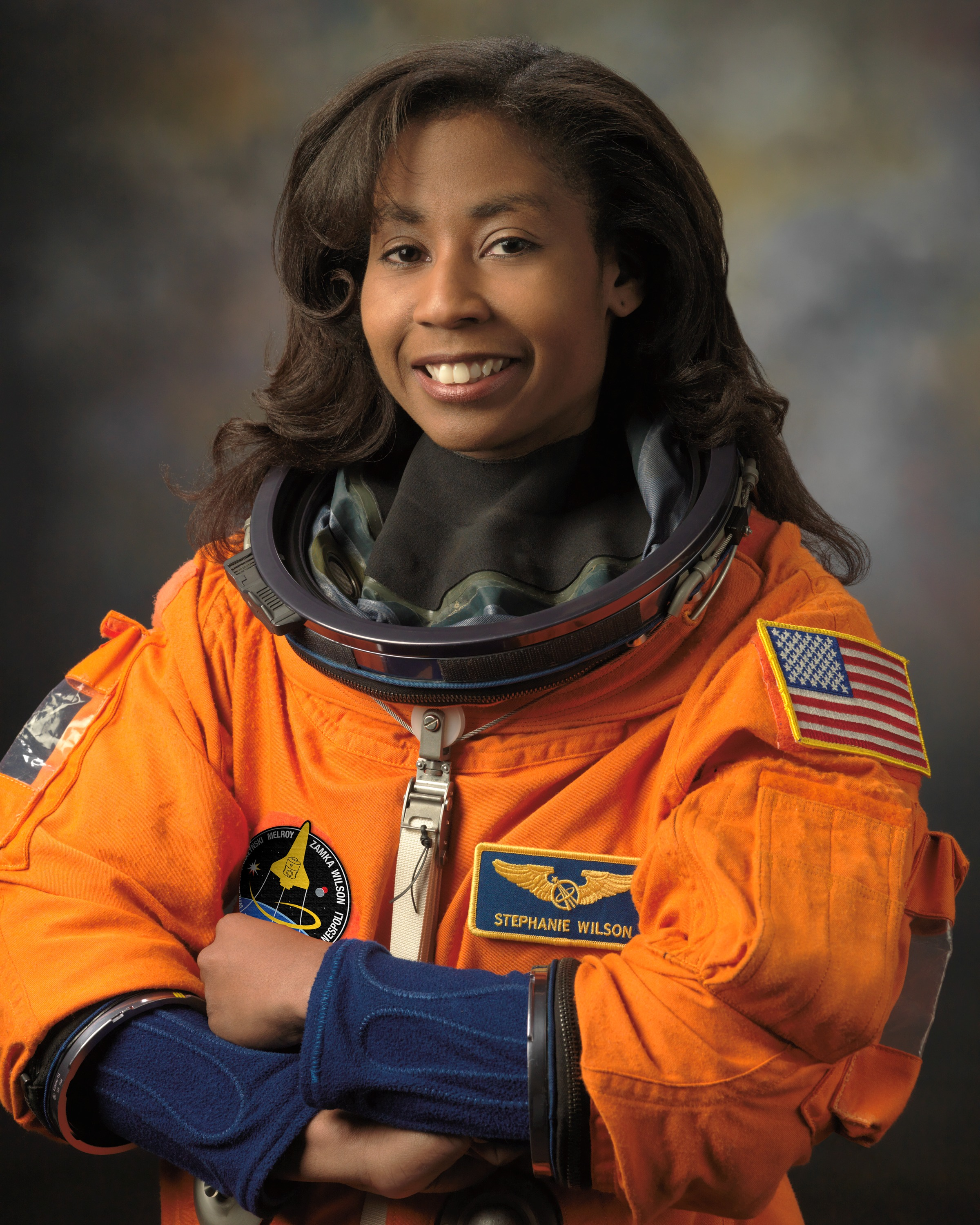 Official portrait photograph of NASA astronaut Stephanie Wilson, attired in a shuttle launch and entry suit at NASA's Johnson Space Center.